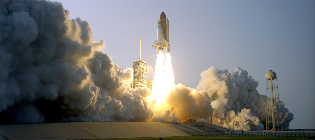 Space Shuttle Endeavour rockets into the sky from Launch Pad 39A to begin its journey into space on mission STS-118. August 08, 2007. US NASA.